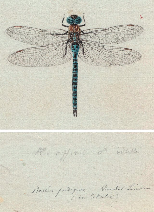 Watercolor of an Aeshna affinis dragonfly by the Belgian entomologist Pierre Léonard Vander Linden from the collection of Edmond de Sélys Longchamps. On the bottom part, two notes by Longchamps read "Æ. affinis ♂ adulten" and "Dessin fait par Vander Linden (en Italie)« (Illustration made by Vander Linden in Italy).